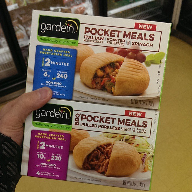 Also, the @@gardein vegan hot Pocket Meals! ...getting both.